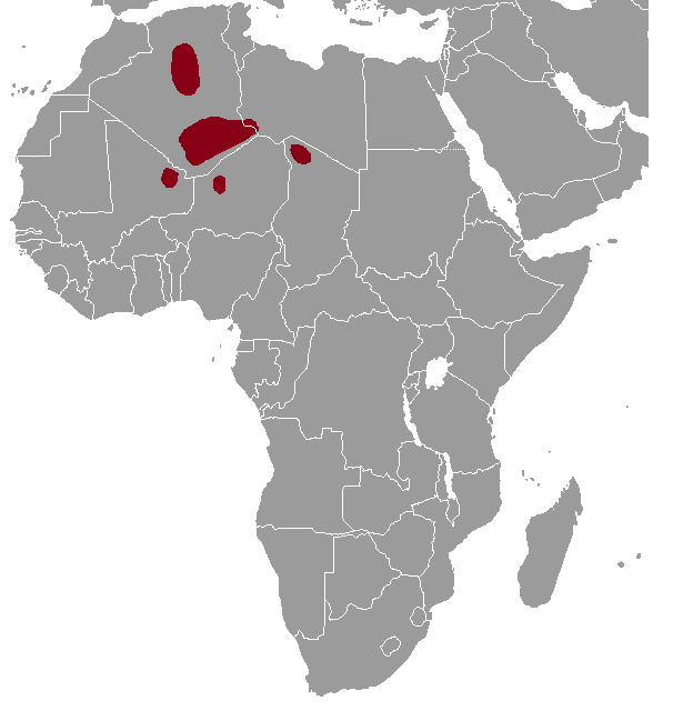 Massoutiera mzabi range map